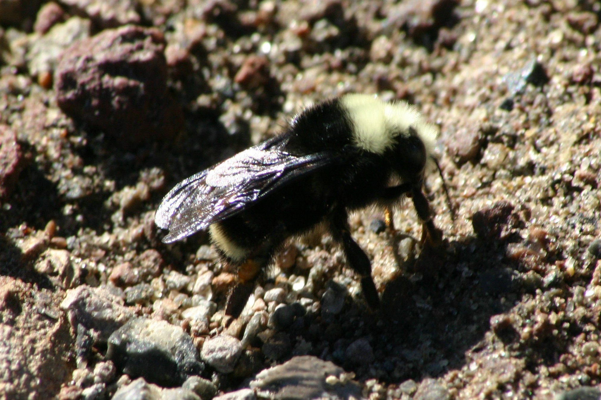 Bombus vosnesenskii on ground